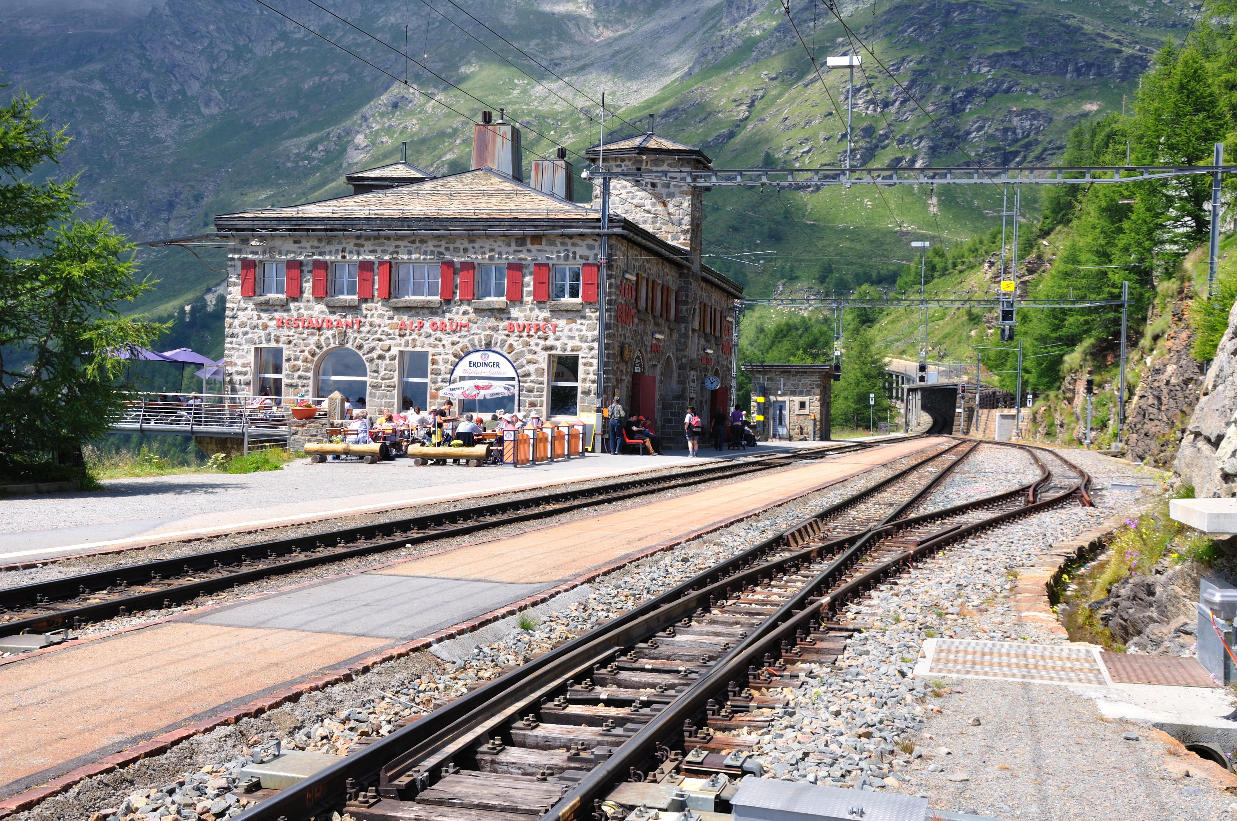 Switzerland, Graubünden, Alp Grüm station on the Bernina line of Rhaetian Railways